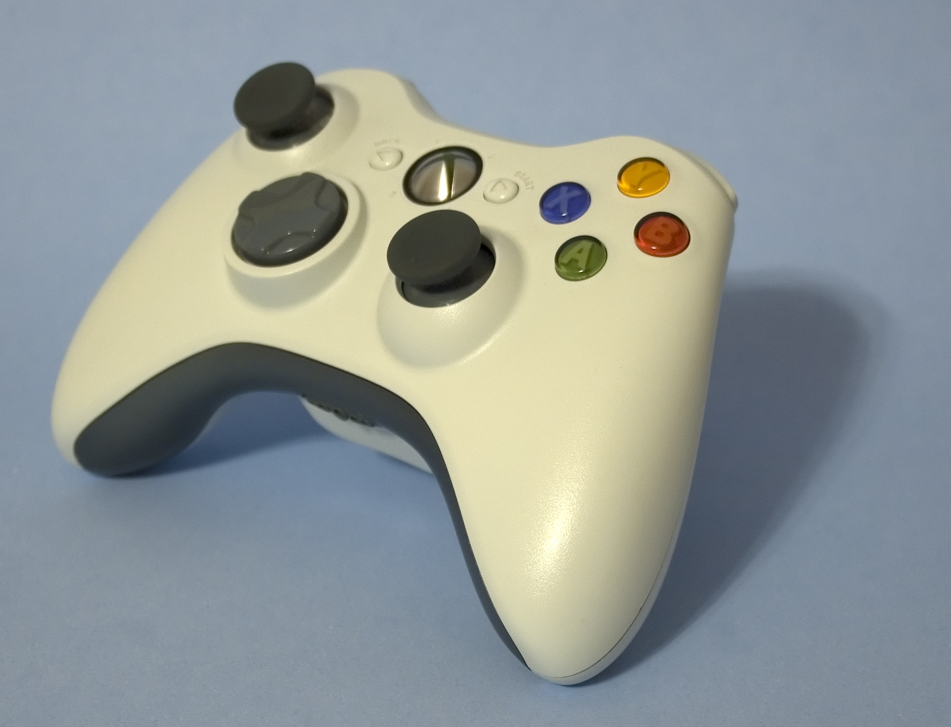 A controller from an Xbox 360.